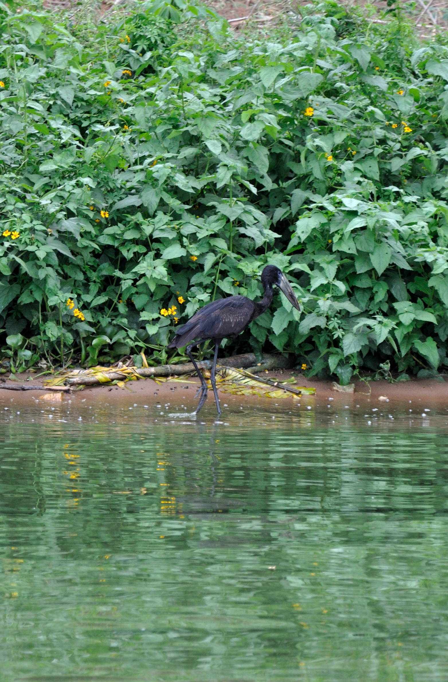 Uganda, Boat trip along the shore of Lake Victoria